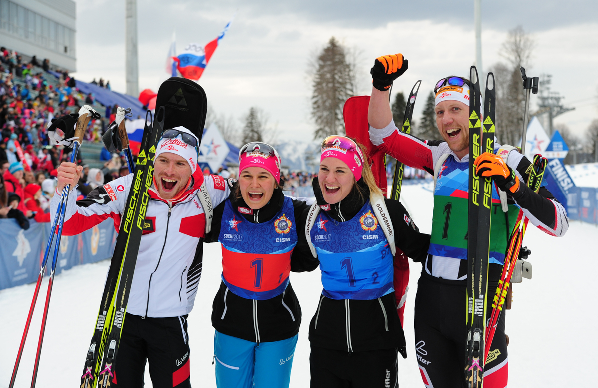 Команда Австрии первое место. Биатлон, смешанная эстафета. III Зимние Всемирные Военные Игры. Лыжно-биатлонный комплекс «Лаура», Сочи, Россия. 25 февраля 2017. Фото Alexander Fedorov/CISM2017Team Austria first place. Biathlon, Mixed Relay. 3rd CISM World Winter Games. Laura Cross-Country Ski&Biathlon Centre, Sochi, Russian Federation. February 25, 2017. Photo by Alexander Fedorov/CISM2017